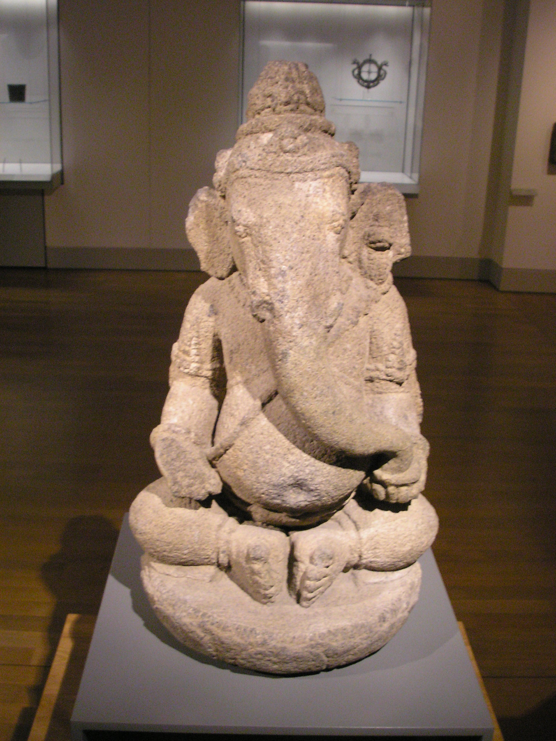 Ganeśa, eastern Java, Kediri, 11th century CE, volcanic stone, 58 x 32 cm. Located in the Museum für Indische Kunst, Berlin-Dahlem.